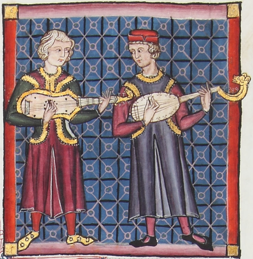 Medieval painting of guitarra latina (left) and guitarra morisca (right) from the Cantigas de Santa Maria (13th. century)